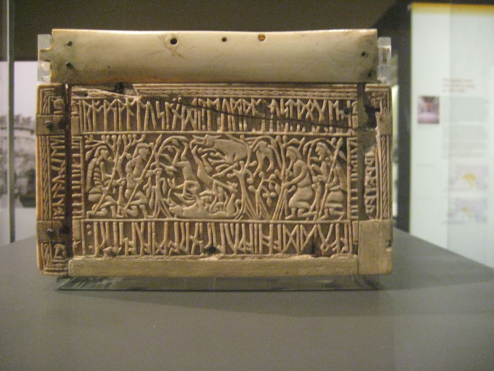 The left panel of the Franks casket. The left panel depicts the mythological twin founders of Rome, Romulus and Remus, being suckled by a wolf lying on her back at the bottom of the scene. The same wolf, or another, stands above, and there are two men with spears approaching from each side. The inscription reads: Romwalus and Reumwalus, twœgen gibroþær, afœddæ hiæ wylif in Romæcæstri, oþlæ unneg. Romulus and Remus, two brothers, a she-wolf nourished them in Rome, far from their native land.[1] Carol Neuman de Vegvar (1999) observes that other depictions of Romulus and Remus are found in East Anglian art and coinage (for example the very early Undley bracteate).[2] She suggests that because of the similarity of the story of Romulus and Remus to that of Hengist and Horsa, the brothers who were said to have founded England, "the legend of a pair of outcast or traveller brothers who led a people and contributed to the formation of a kingdom was probably not unfamiliar in the 8th-century Anglo-Saxon milieu of the Franks Casket and could stand as a reference to destined rulership."[3]